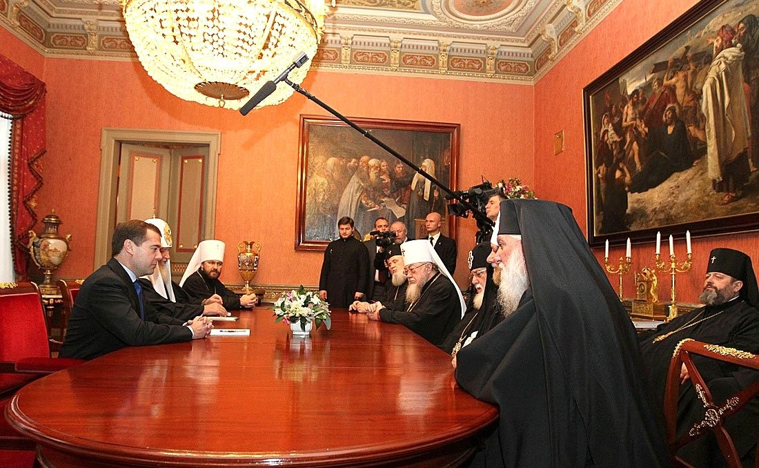 Dmitry Medvedev with patriarch Kirill and leaders of local Orthodox churches: metropolitan Sava of Warsaw and all Poland, archbishop Abel of Lublin and Kholm, metropolitan Hilarion of Volokolamsk and patriarch Elijah of Georgia